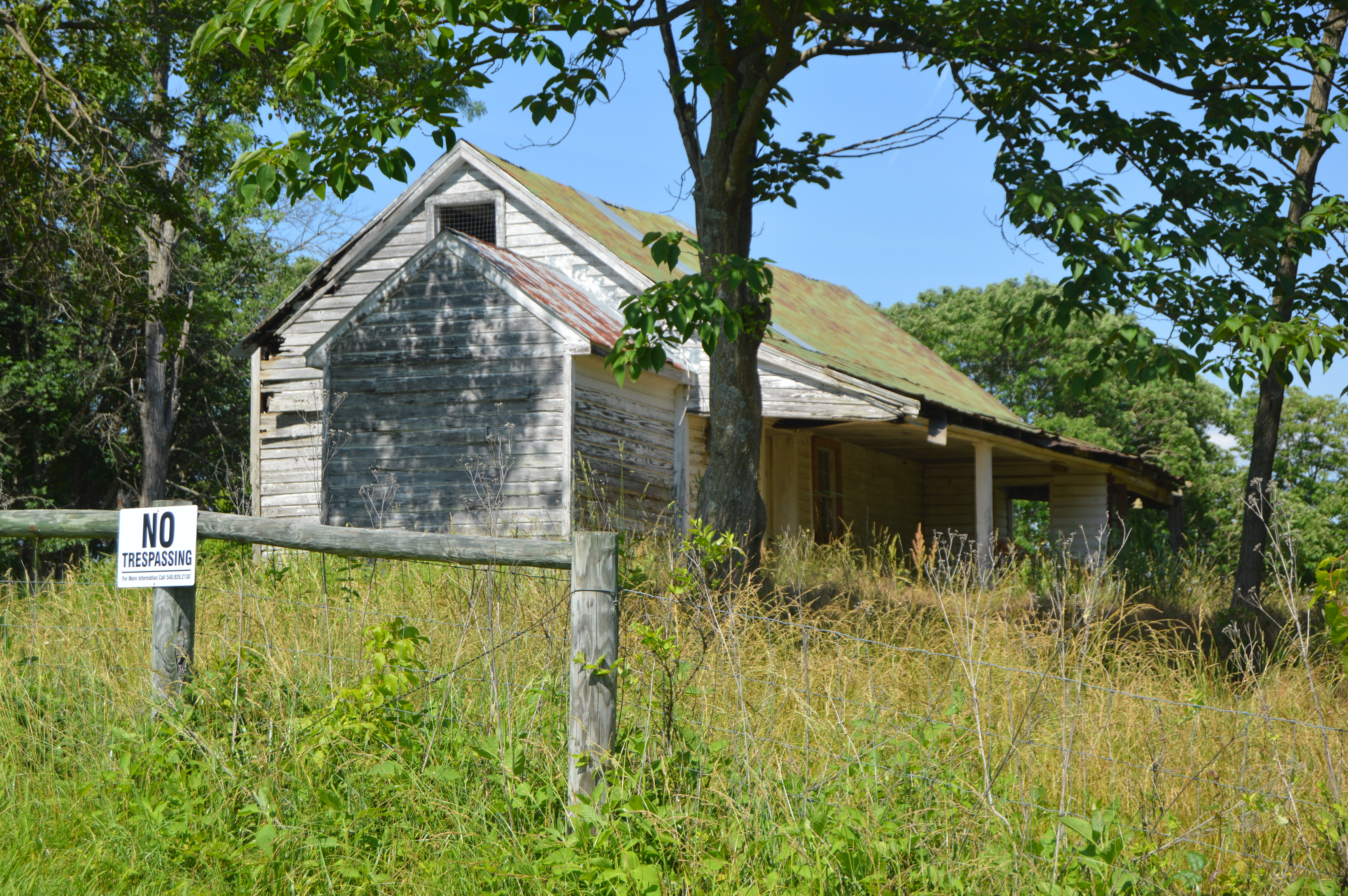 Western end of the Bowyer-Holladay House, located on International Parkway just north of Amsterdam in Botetourt County, Virginia, United States. Built in 1830, it is an archaeological site and has been listed on the National Register of Historic Places.